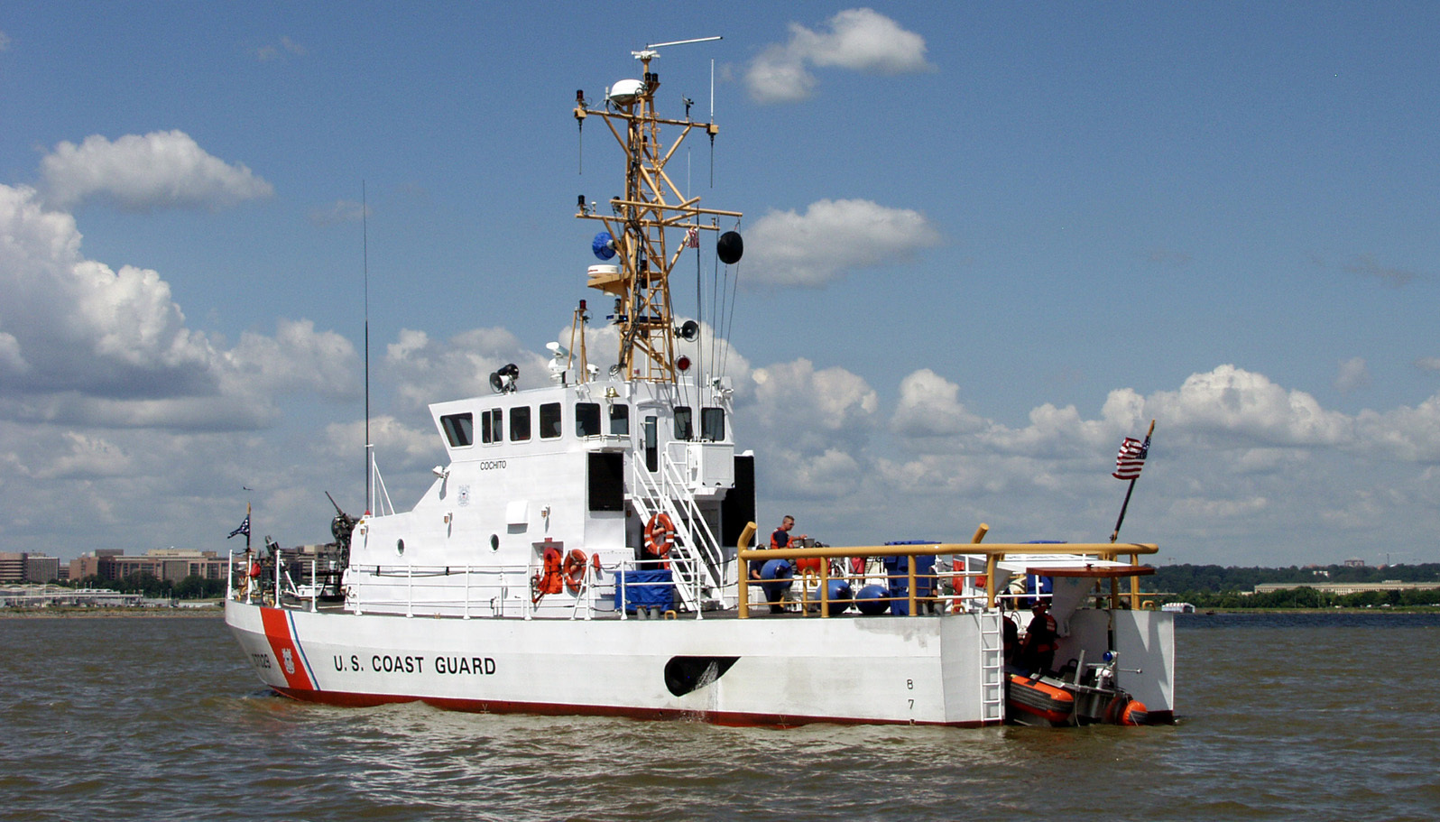 Coast Guard Cutter Cochito patrols the Potomac River. Original caption: "WASHINGTON, D.C. (Aug. 7, 2004)--U.S. Coast Guard Cutter Cochito (WPB 87329), homeported in Little Creek, VA, launches its small boat, Cochito One, via its stern ramp on August 7, 2004, while patrolling the Potomac River. Stern ramp launching allows rapid, safe deployments and recoveries of the small boat. It?s quicker, safer and more efficient than launching a small boat over the side with a davit. Coast Guard and Coast Guard Auxiliary small boats from Washington, DC, Northern Virginia and Maryland teamed with Cochito and its small boat, during the Marine Safety and Security patrol. Cutter Cochito is a 92 ton, 87-foot Coastal Patrol Boat, commissioned on 24 MAR 2001, and homeported in Little Creek, VA. It?s one of 54 Coast Guard Marine Protector Class vessels. USCG photo by Joseph P. Cirone, USCGAUX"